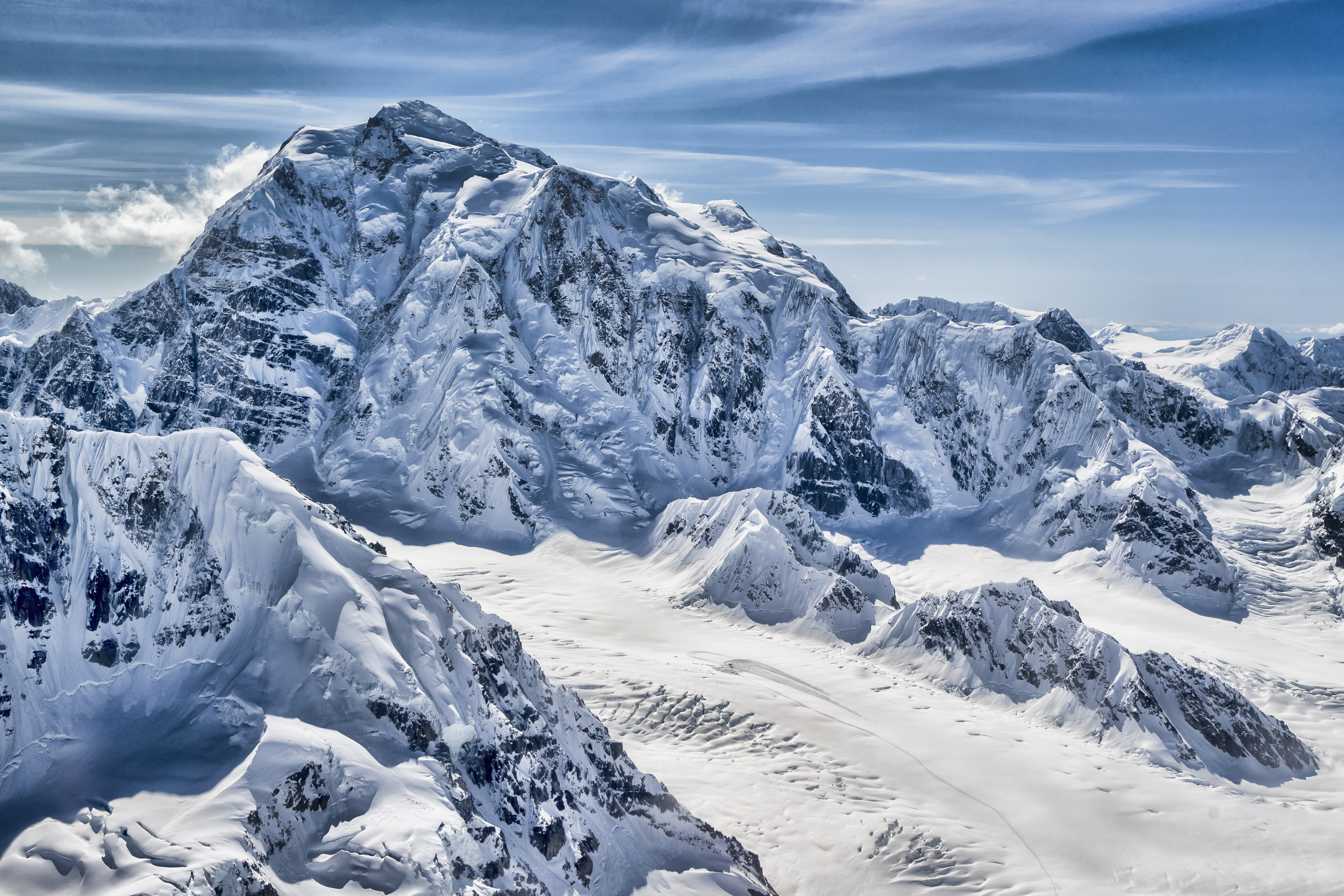 Mount Hunter aerial